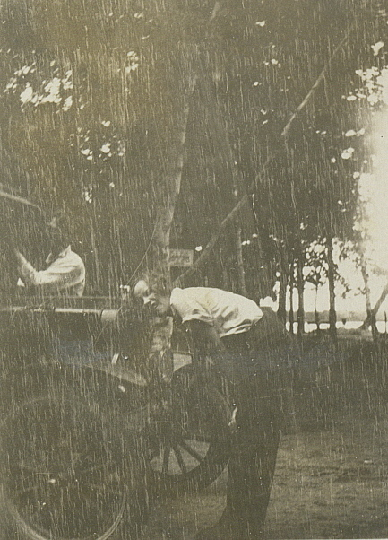 Young woman hand cranking the car to start it on a rainy day, August, 1926.